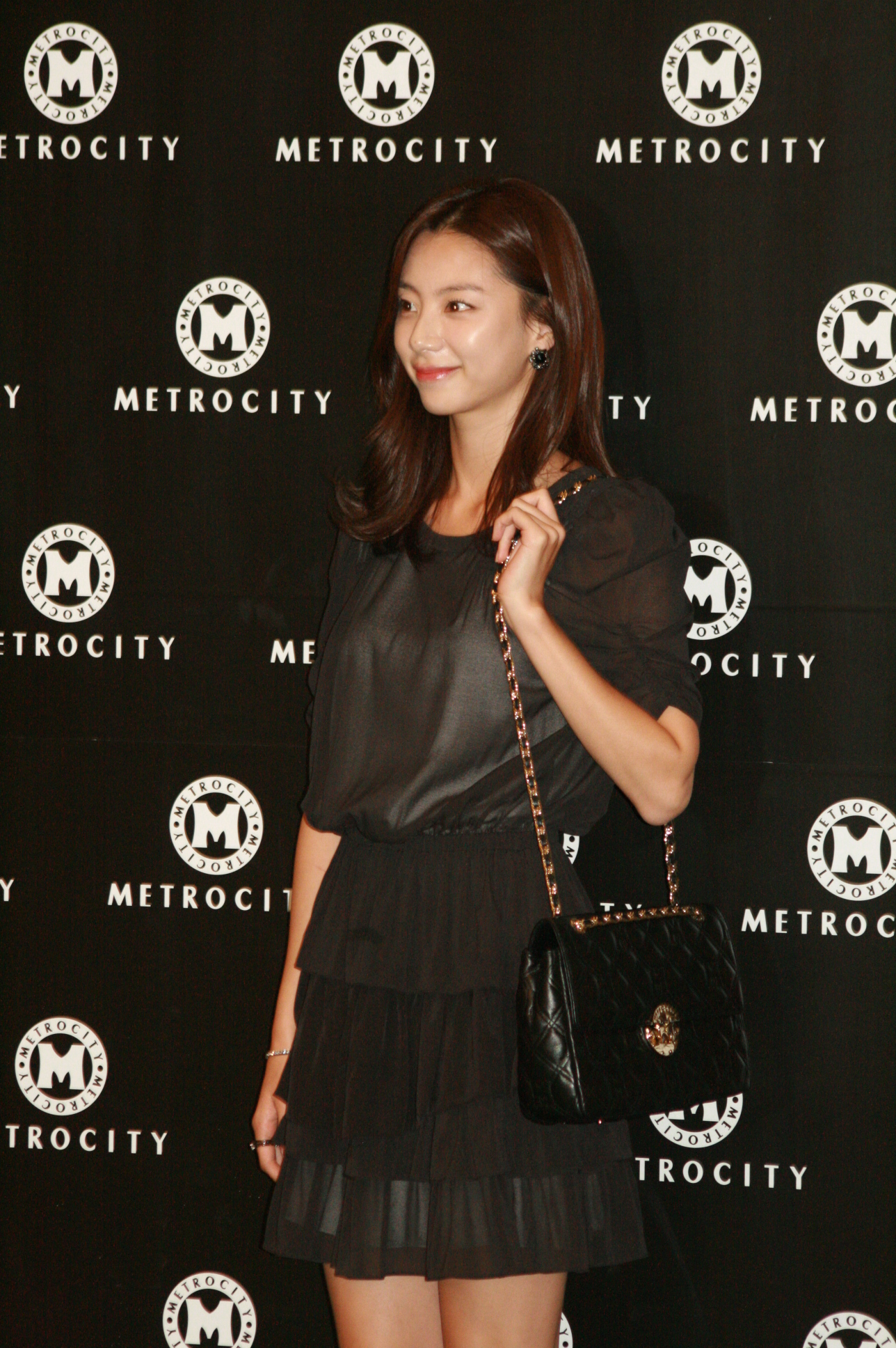 Park Soo-jin on September 16, 2011